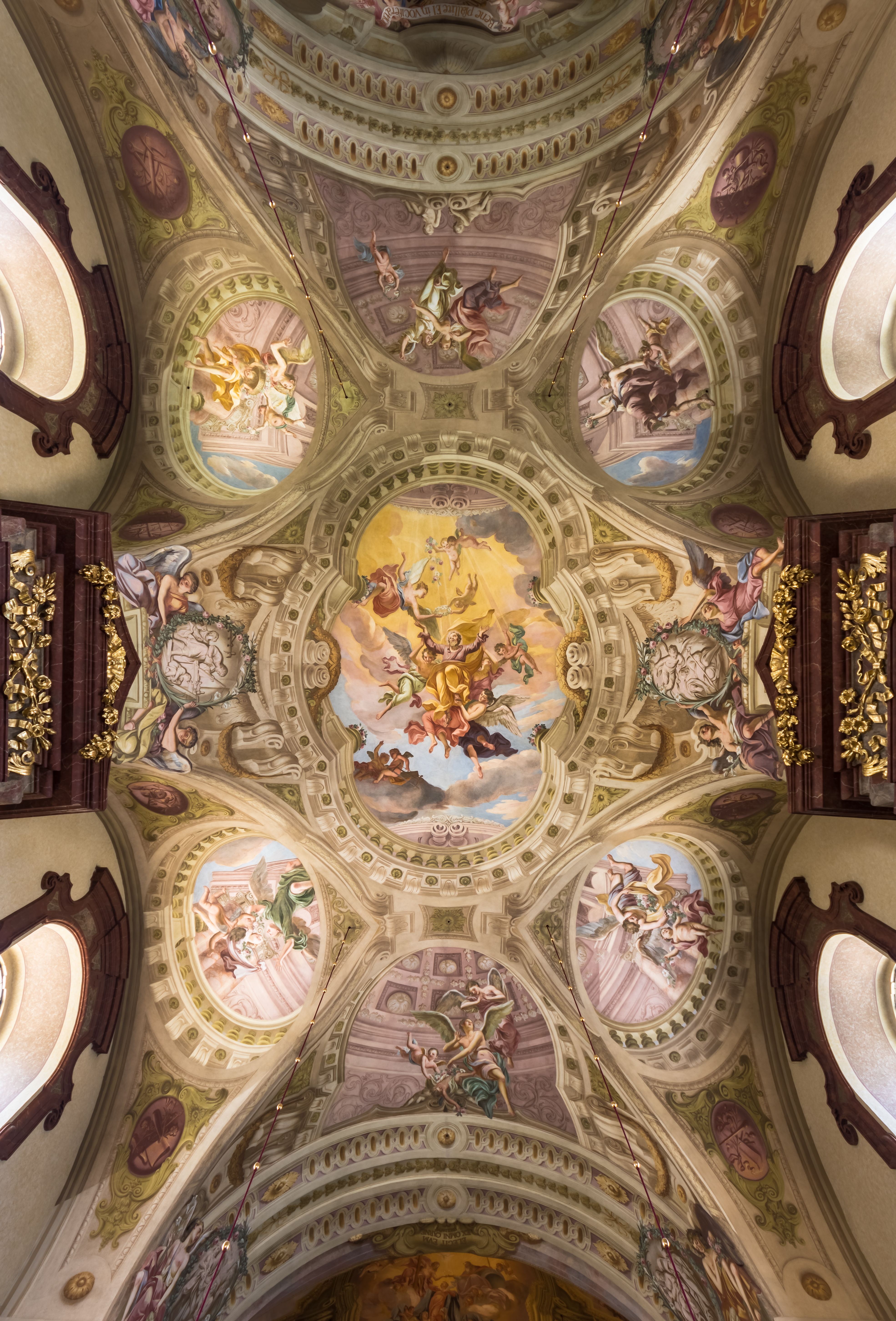 Ceiling fresco in the nave of Maria Taferl Basilica (Lower Austria) by Antonio Beduzzi (1714-1718): Glorification of St. Joseph